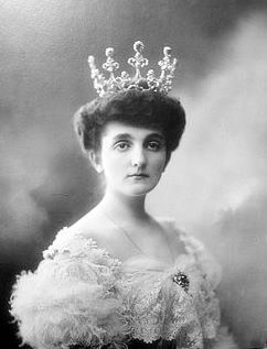 Her Royal Highness Natalia Konstantinović, princess of Montenegro.